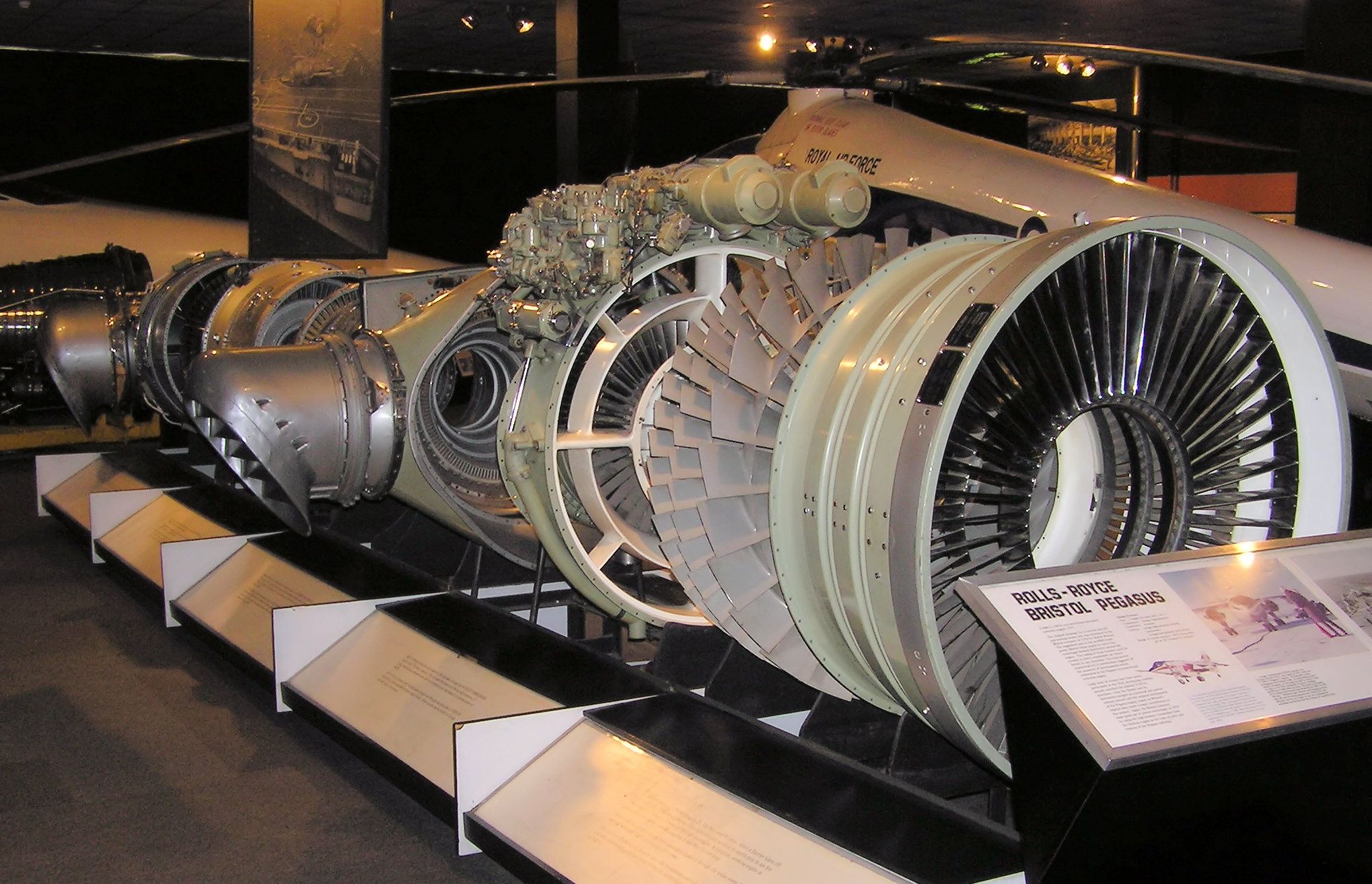 Rolls-Royce Bristol Pegasus, engine of the vertical takeoff Harrier, in the Bristol Industrial Museum, Bristol, England. (In 2007 the Bristol Industrial Museum was permanently closed for conversion to the Museum of Bristol. The exhibits are in storage.) Photographed by Adrian Pingstone in August 2004 and released to the public domain.